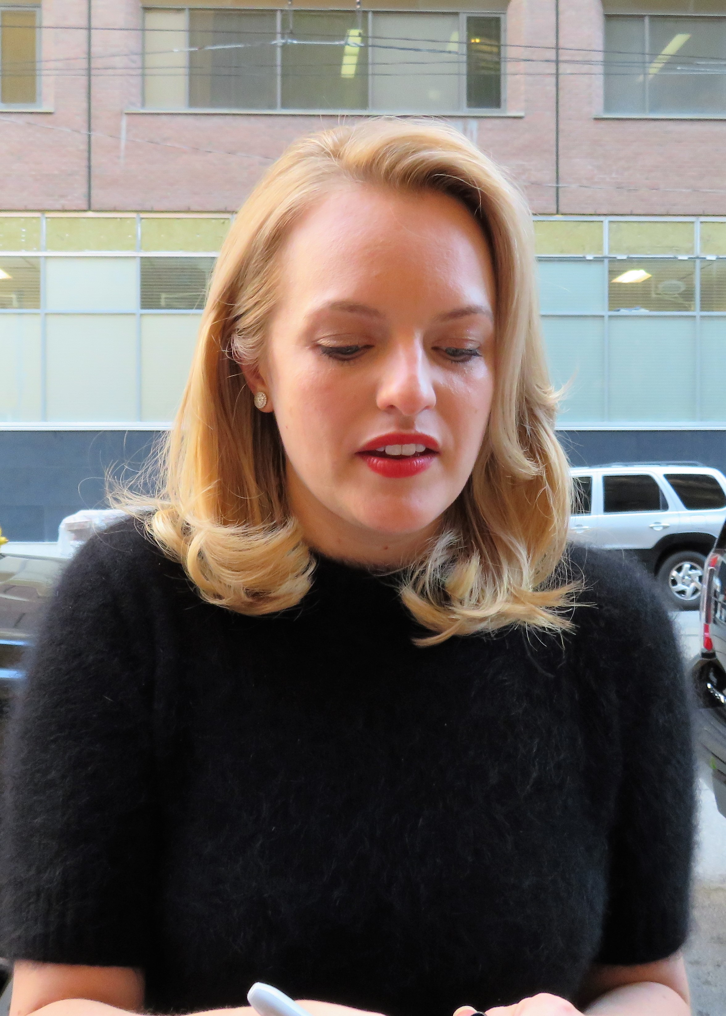 Elisabeth Moss at the premiere of The Square, 2017 Toronto Film Festival